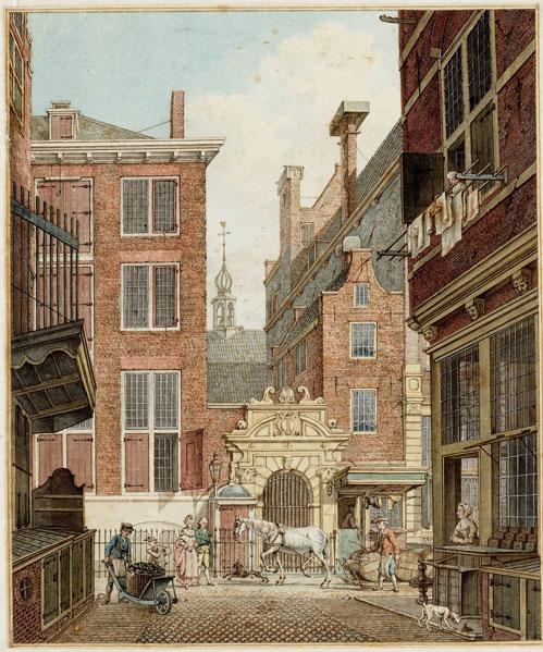 Side gate to the Walloon Church and the Smallest House in Amsterdam, Oude Hoogstraat